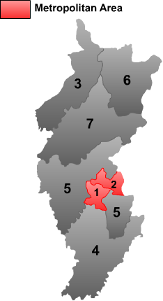 Map of Tonghua prefecture in Jilin province